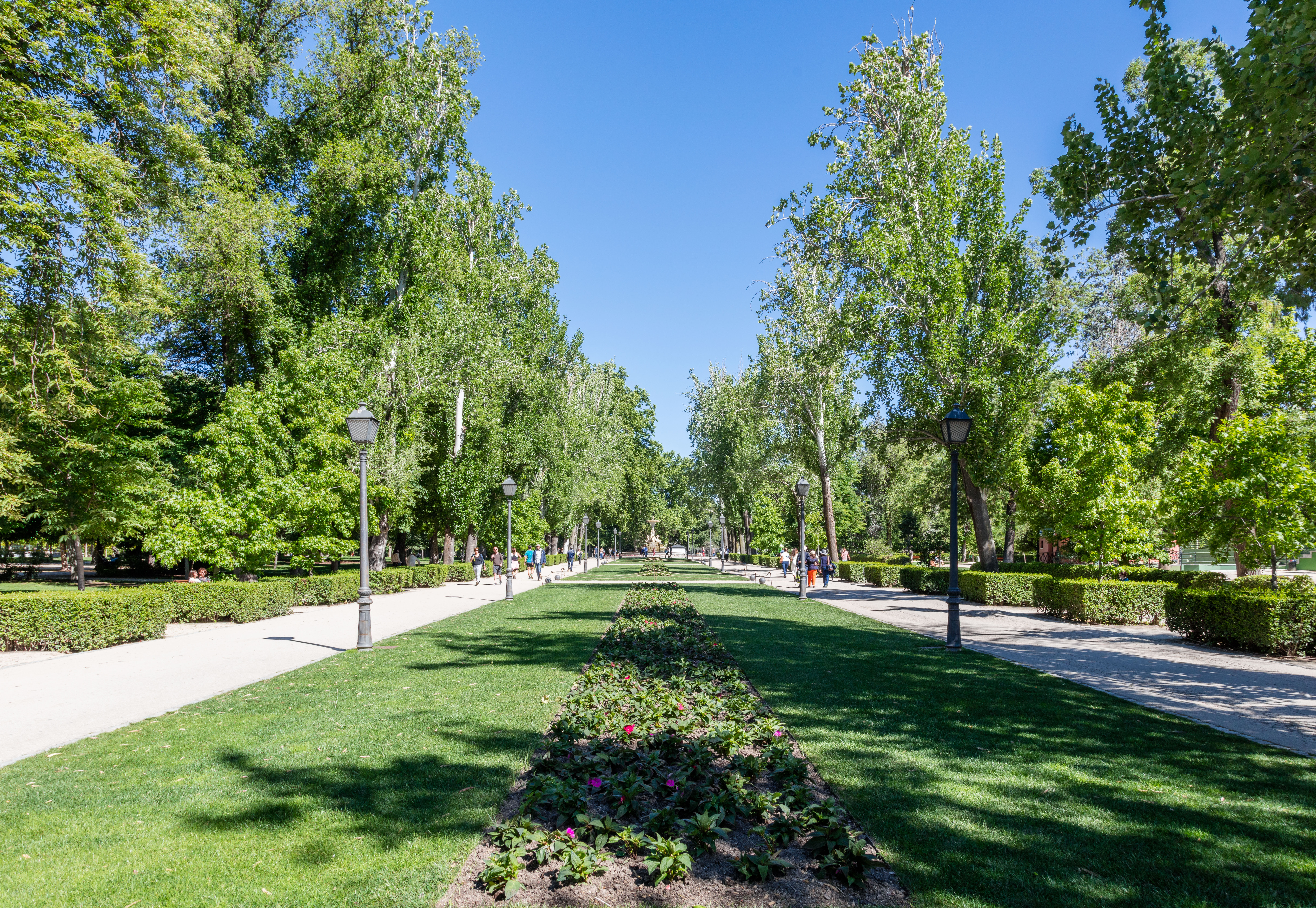 Retiro Park, Madrid, Spain